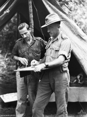 AWM Caption: KARAWOP, NEW GUINEA. 1945-05-05. MAJOR B.W.T. CATTERNS, ADMINISTRATIVE COMMANDER, 2/1 INFANTRY BATTALION (1), LISTENS TO THE LATEST INTELLIGENCE INFORMATION INDICATED ON A SITUATION MAP AS POINTED OUT BY HIS ADJUTANT, CAPTAIN J.C. BURRELL (2).